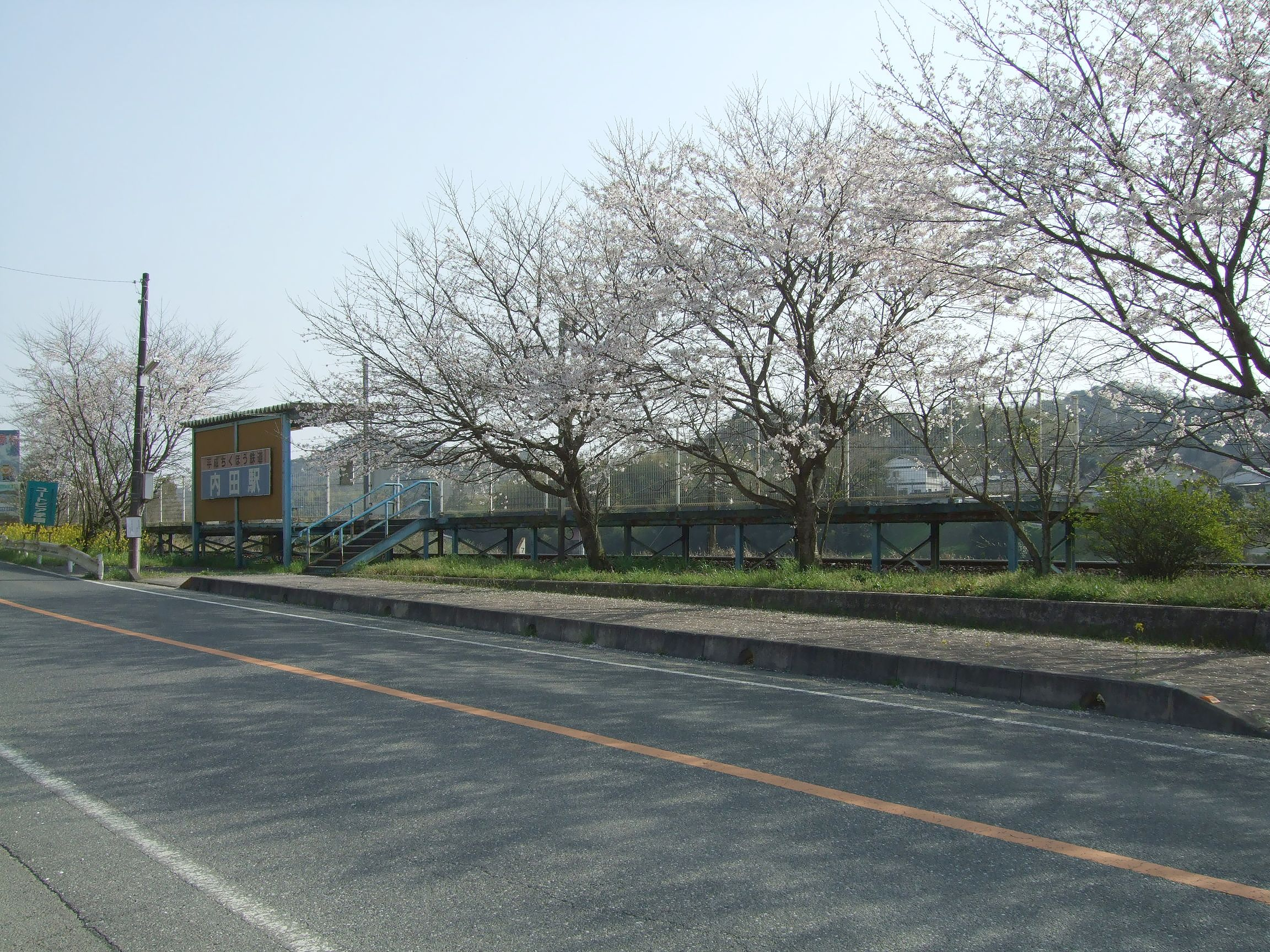 Uchida Station, Tagawa Line, Heisei Chikuho Railway, Aka Village, Fukuoka, Japan.